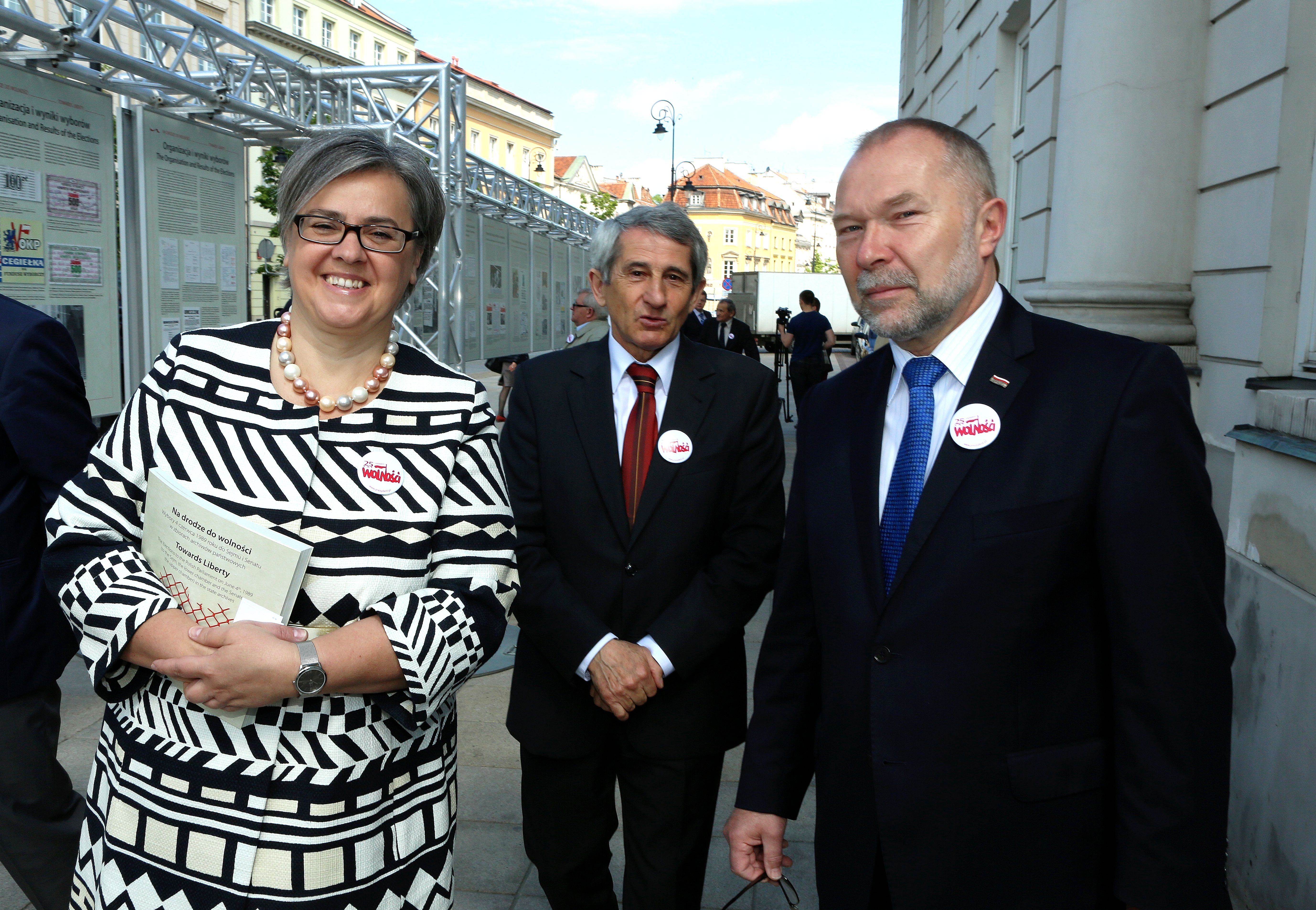 Ewa Polkowska, Władysław Stępniak and Jacek Michałowski.Exhibition "Towards Liberty" in front of Presidential Palace